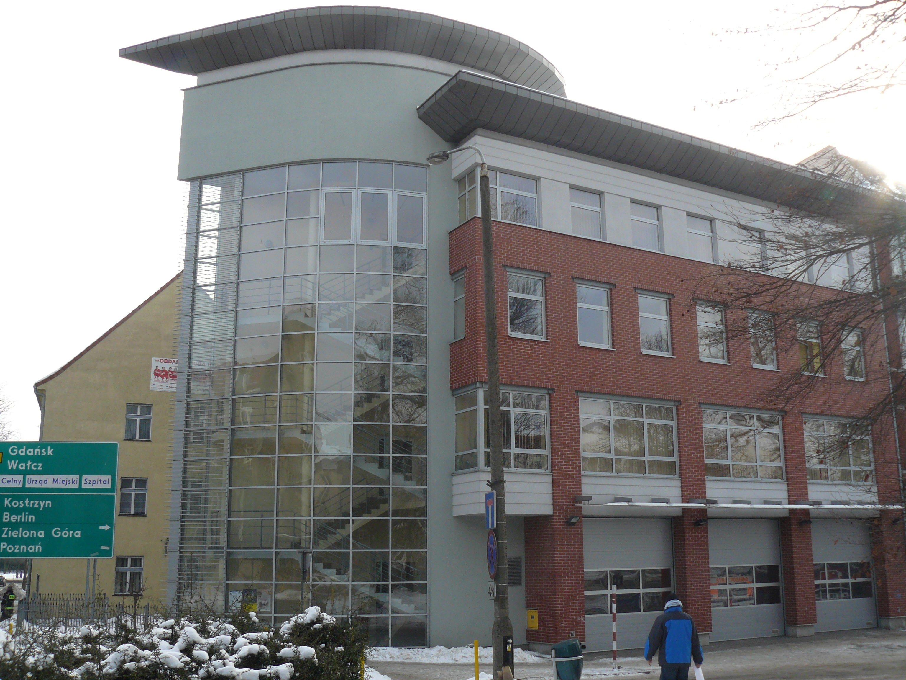 Fire Station